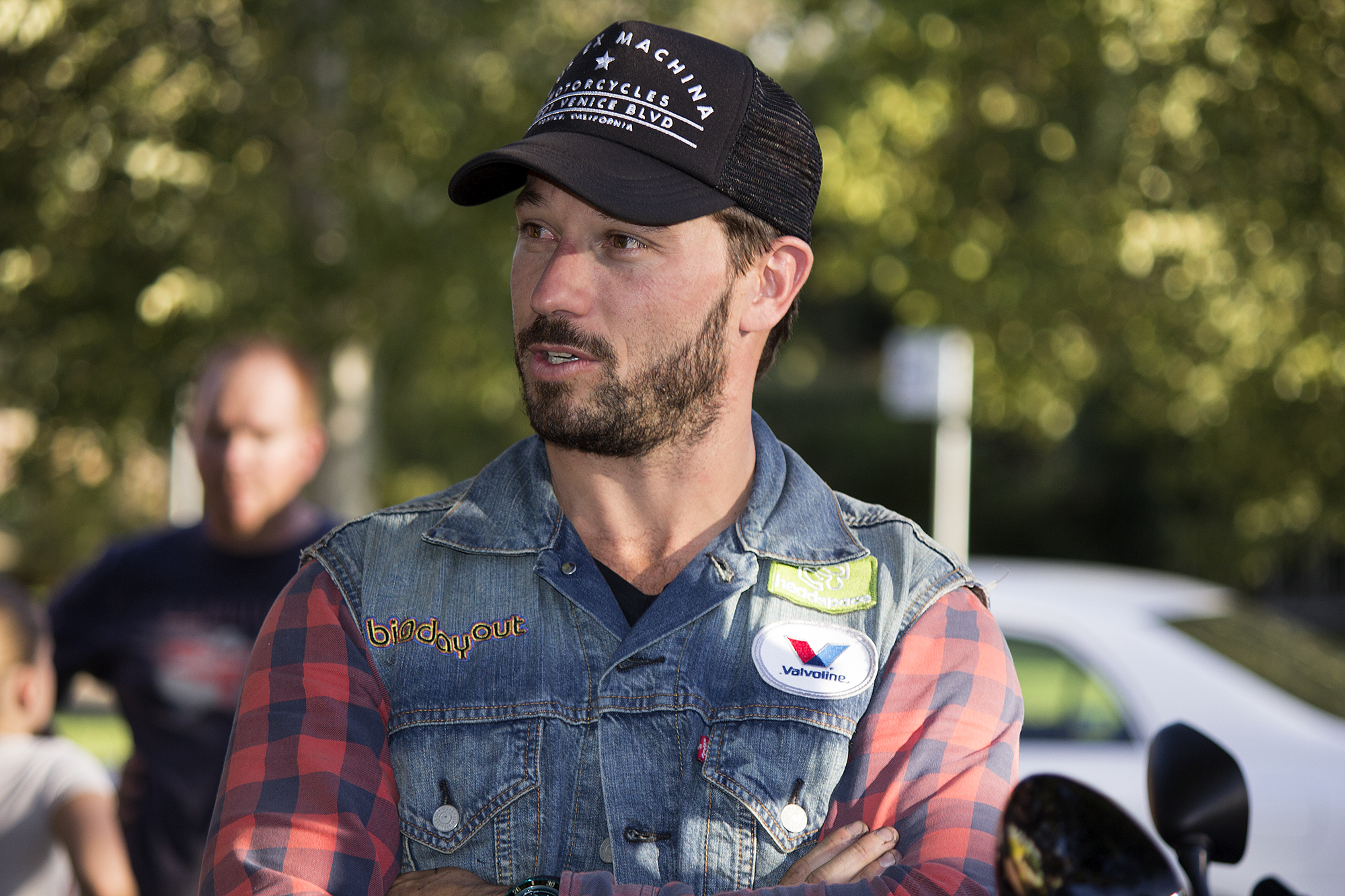 Chris Joannou, part of the Ride'N'Rock ride, in Wagga Wagga.